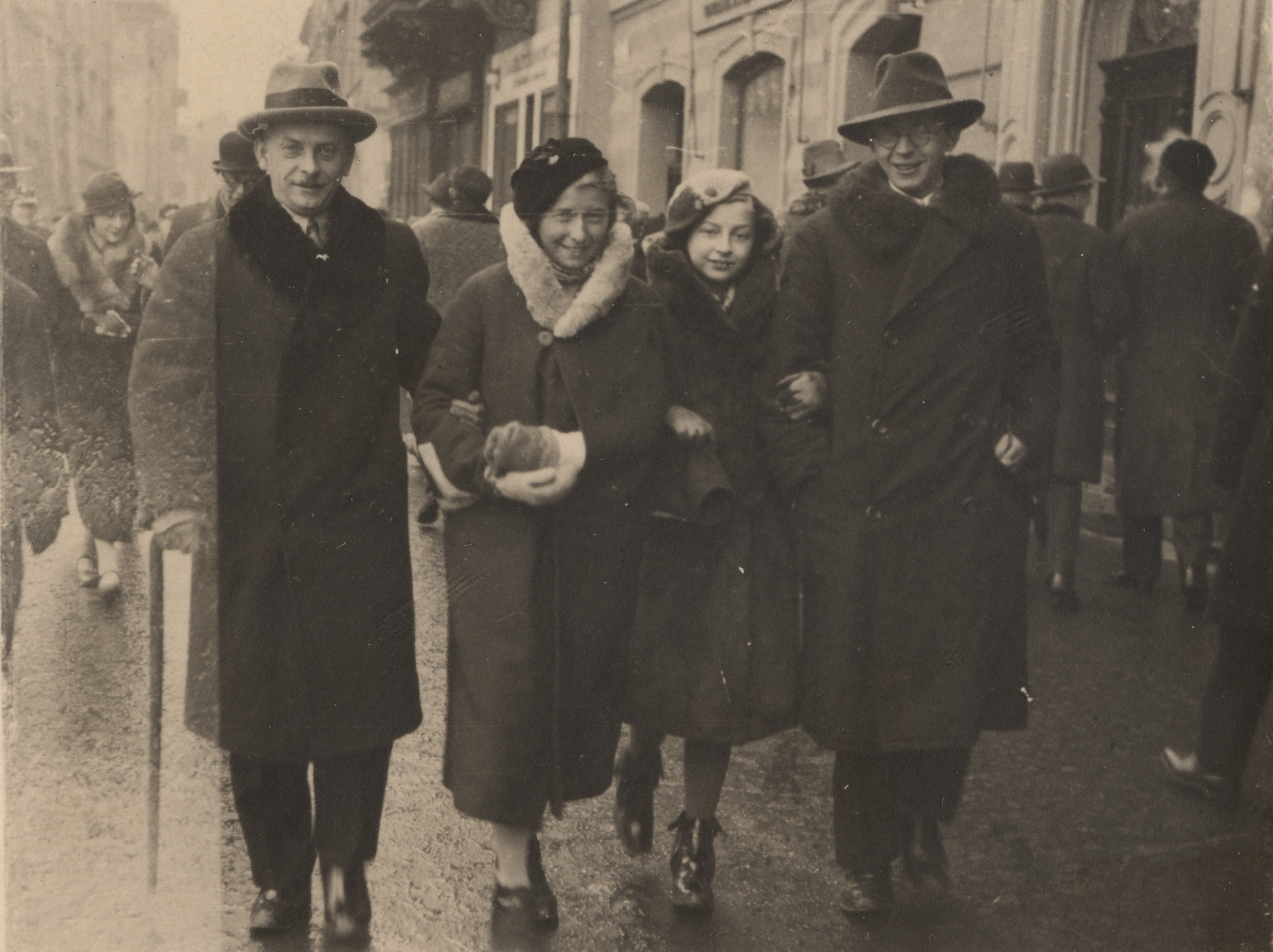 Family photograph in Kraków, Poland. From the left: Zygmunt Vetulani (1894–1941), Polish economist, diplomat and consular officer; his sister-in-law, biologist Irena Latinik-Vetulani (1904–1975); Zygmunt's daughter Wanda Vetulani and his brother Adam Vetulani (1901–1976), historian of medieval and canon law.